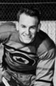 Reginald Schroeter, wearing his RCAF Flyers jersey, won a gold medal in the 1948 Winter Olympics as a member of Canada's men's national hockey team.